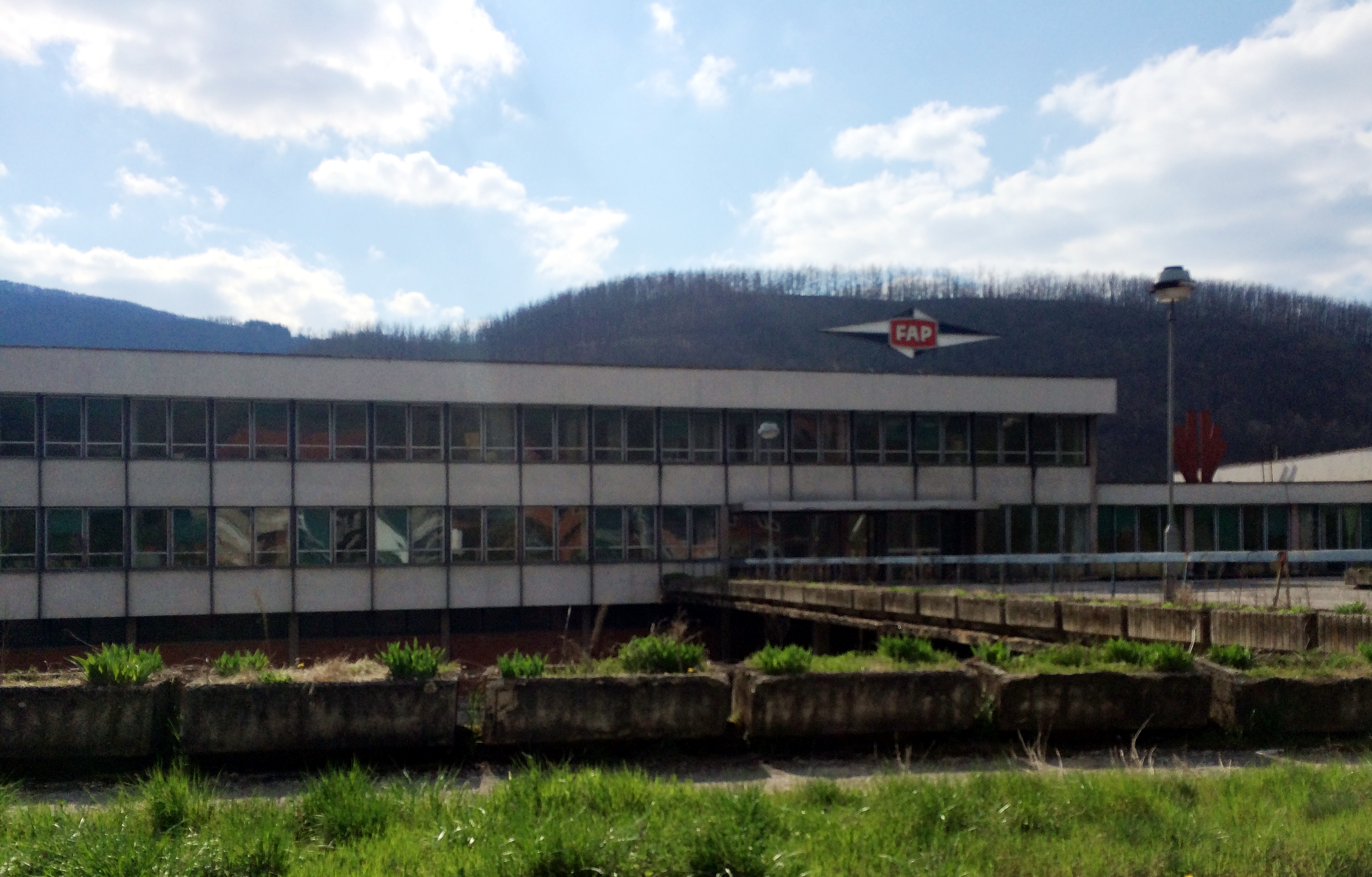 Image of the FAP military truck and vehicle factory, in the city of Priboj, southeastern Serbia. Per 2015, this factory is qualified to enter into joint venture with Sisu OY, a producer of military vehicles in Finland.